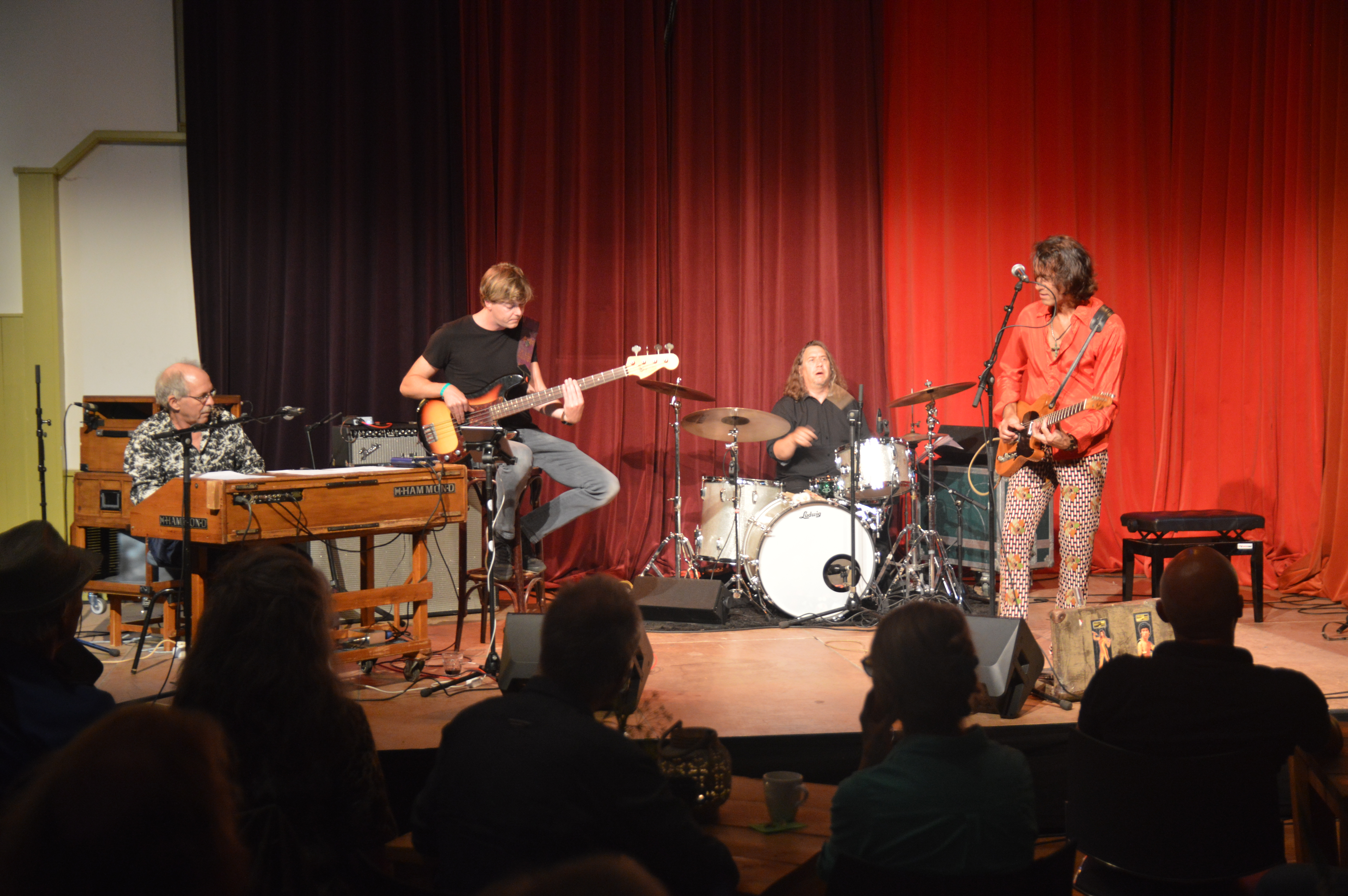 Erwin van Ligten, guitarist, singer, composer and bandleader. Performance with his own band in the Beauforthuis te Austerlitz, Utrecht, The Netherlands. From left to right: Willem Swikker, Jens Dreijer, Marcus Weymaere en Erwin van Ligten